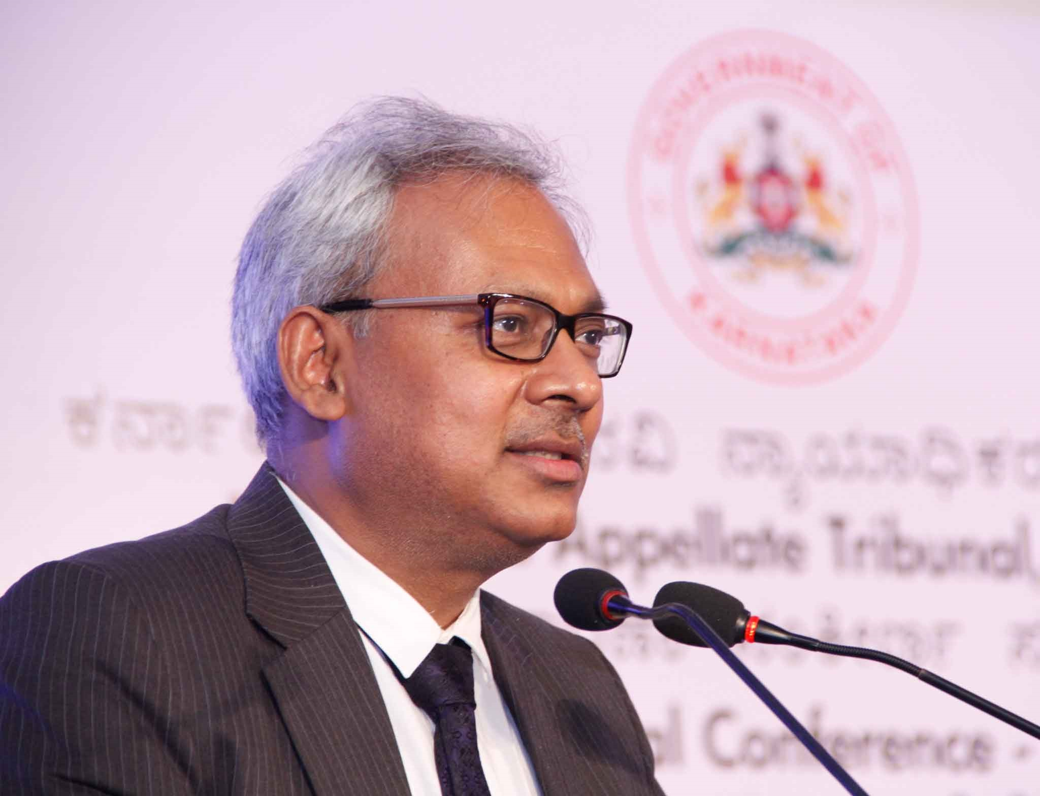 Presentation of Case Watch System by Shri Kapil Mohan IAS